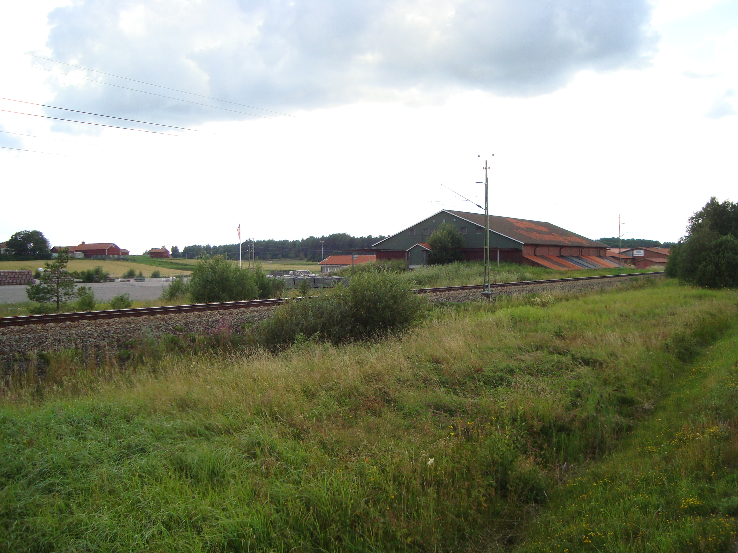 Vittinge roof tile factory, Heby Municipality, Sweden